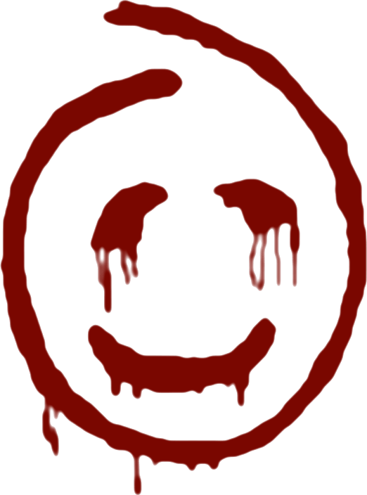 An example of the smiley face left as the M.O. of fictional serial killer Red John on the CBS show The Mentalist.